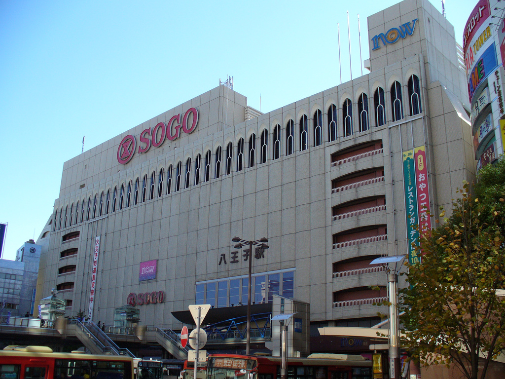 Hachioji Station North